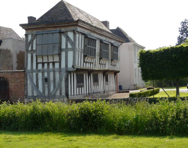 Middleton Hall - The Jettied Building